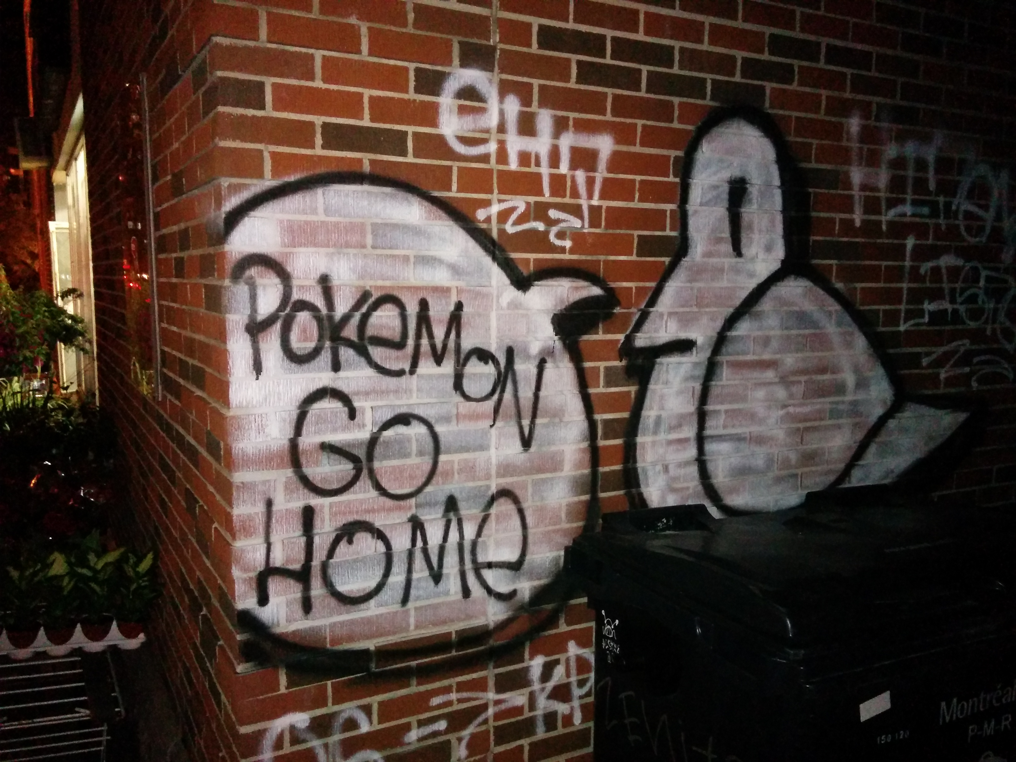 Pokemon go home @ Montreal